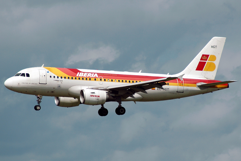 Iberia Airbus A320